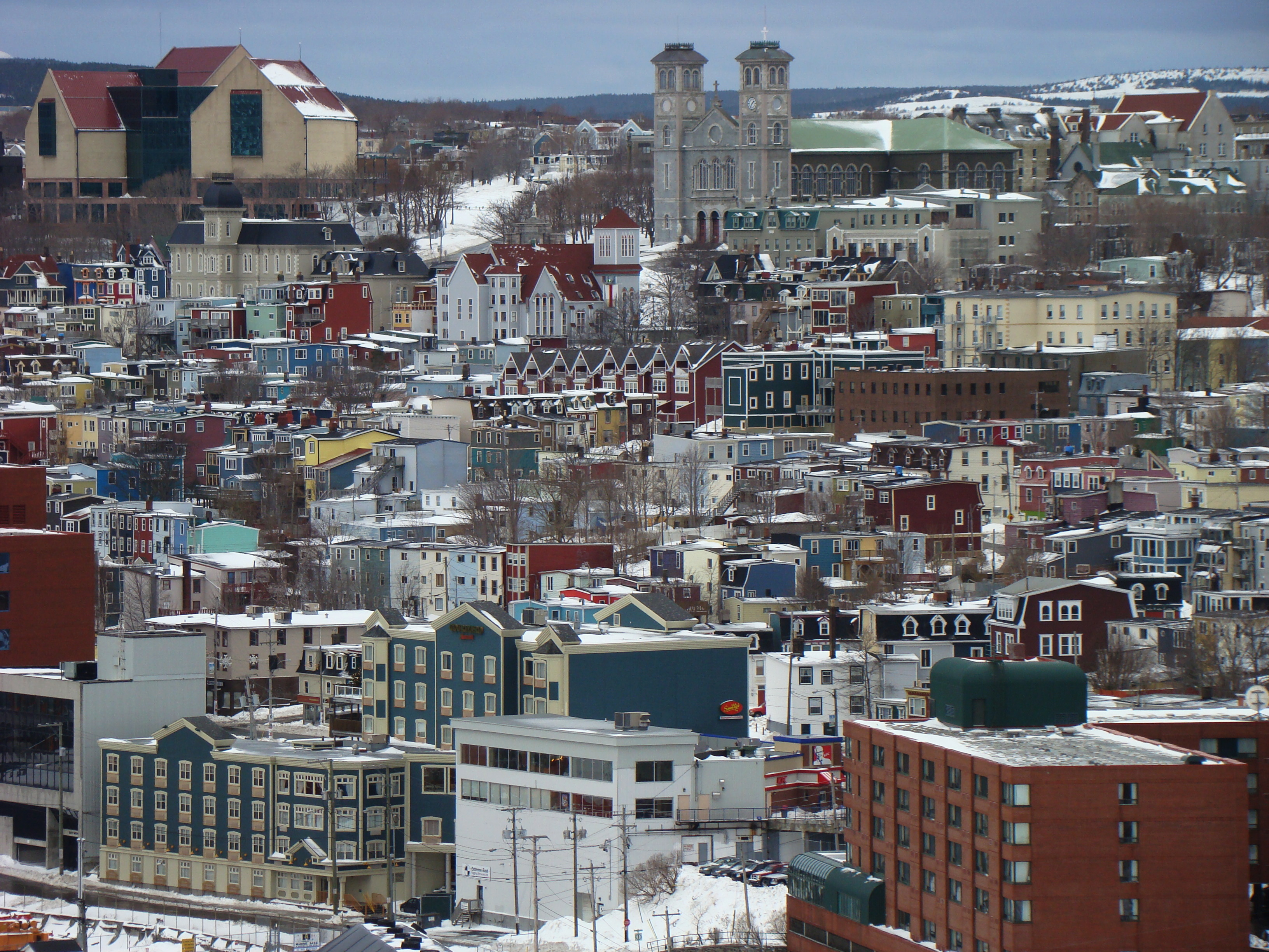 Éven in winter the City remains colourful